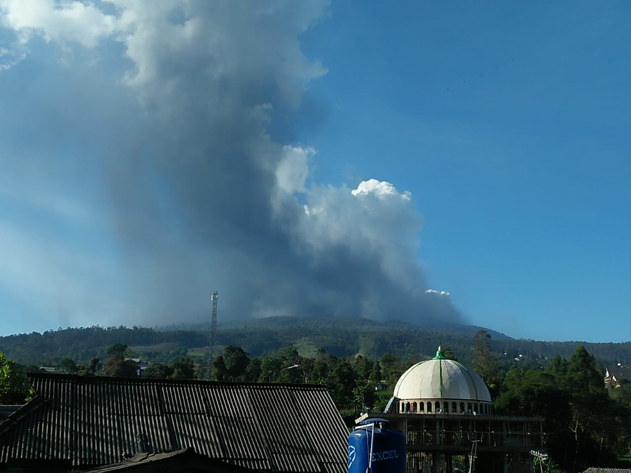 The 2019 eruption of Mount Tangkuban Perahu. The phreatic eruption didn't kill anyone, however in the aftermath of the incident several people reported breathing difficulties due to the ashfall